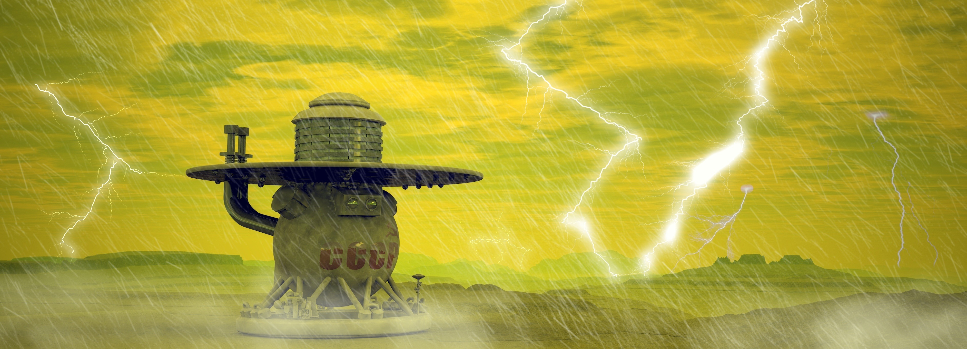 Art recreation about one of the space probe from Venera program of Soviet Union on the venus surface.